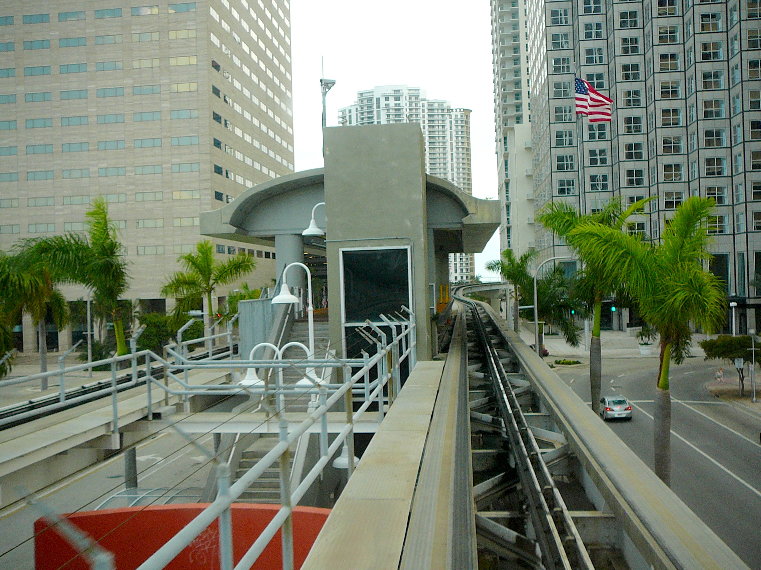 Digital photo taken by Marc Averette. The Bayfront Park Metromover station in downtown Miami on 5/10/2008